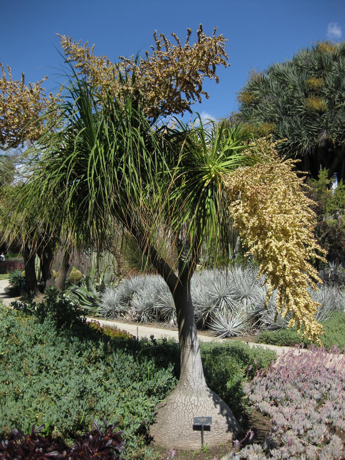 Photographed at Huntington Gardens (Los Angeles, California) in March